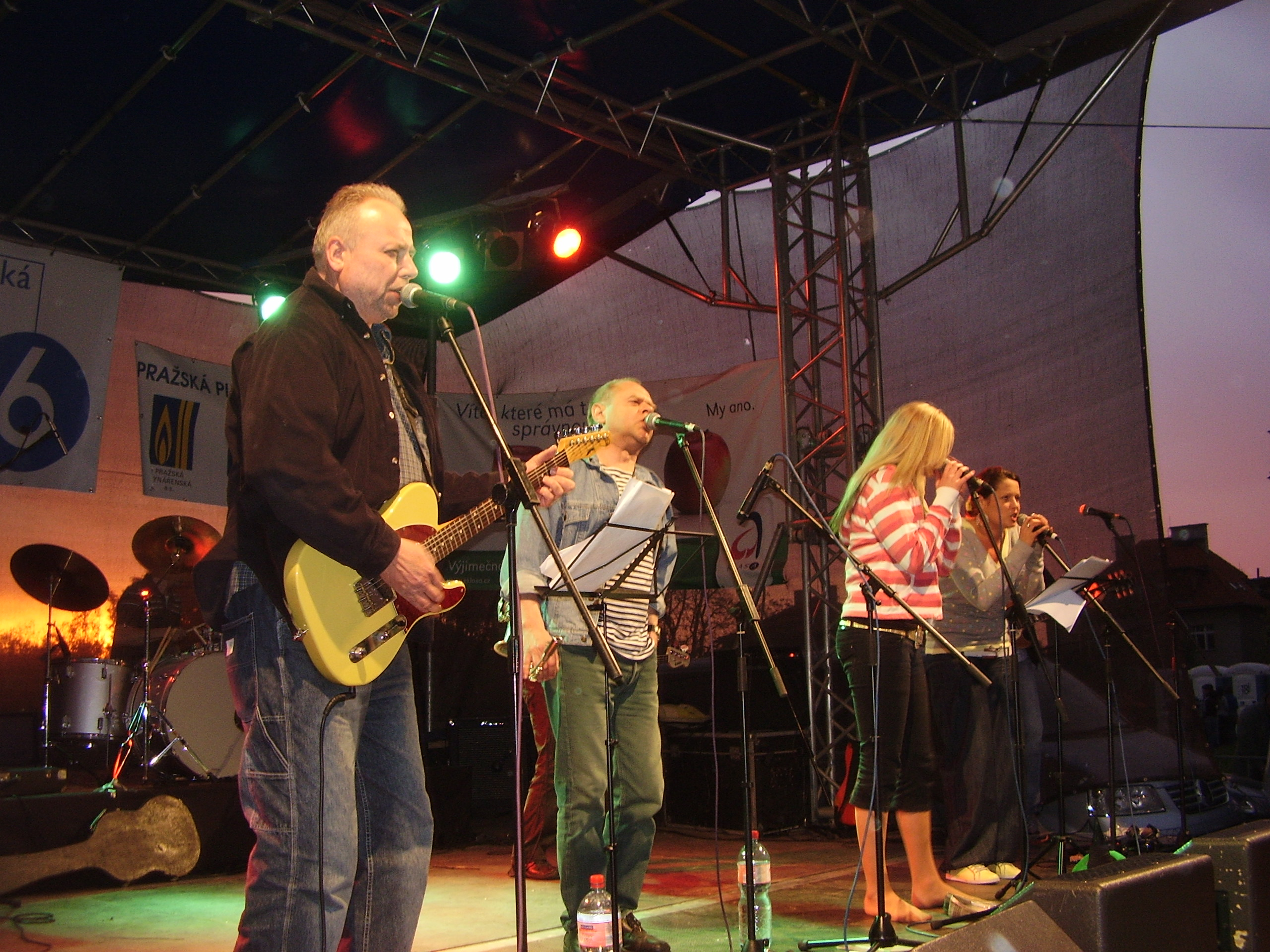 Czech music group Hudba Praha, Ladronka, Prague